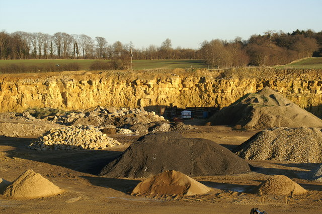 Collyweston Quarry — near Collyweston and Duddington in northeastern Northamptonshire. Originally quarried for Collyweston slate roof material (limestone shingles). A face of Jurassic limestone forms the back wall of this quarry which today mainly houses sand and gravel.